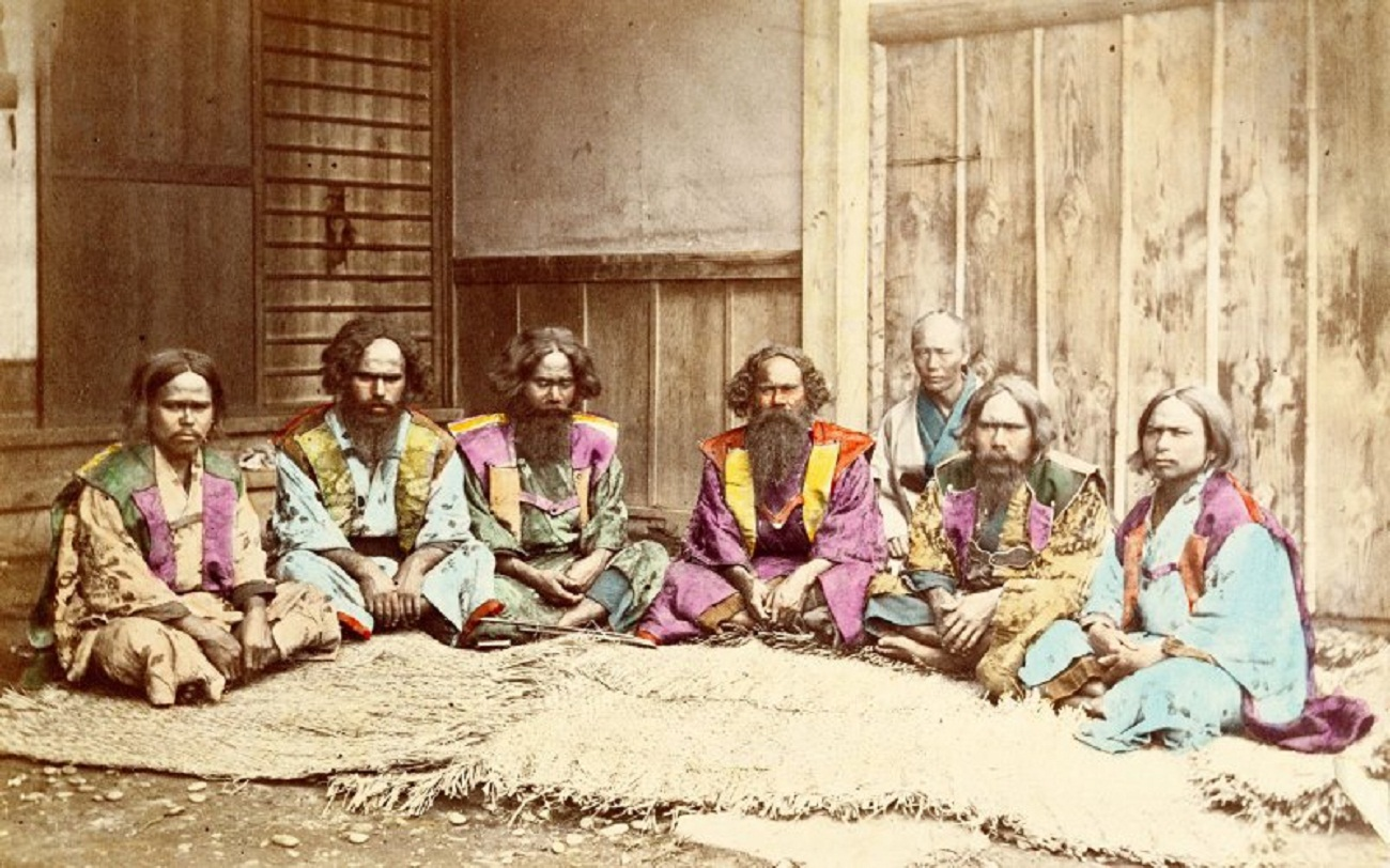 A GROUP OF AINOS. THE Ainos are a people inhabiting the Northern island of Yesso. They differ from the Japanese in language and race. Their origin is lost in a wild and fabulous tradition. The legend runs thus—“That the race owes its preservation to a doll which swam across from Corea to the uninhabited island of Yesso.” They were conquered some three hundred years ago by the Japanese. The people are employed during the summer months in felling trees in the forests, or collecting Kombo (a species of sea-weed) for the Government, and they may be said to be veritable hewers of wood and drawers of water. They are superstitious and have great belief in the supernatural. Their women are stout and handsome, though their beauty is somewhat marred by the habit of tattooing their upper lip.